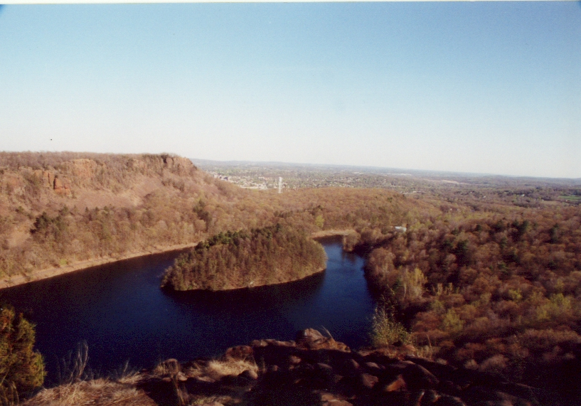 South Mountain from East Peak. The Hanging HIlls, Meriden, Connecticut by Paul Gagnon 2003